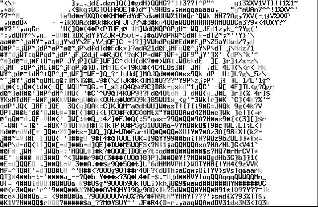 ASCII ART Zebra, image prior to being converted as black/white negative